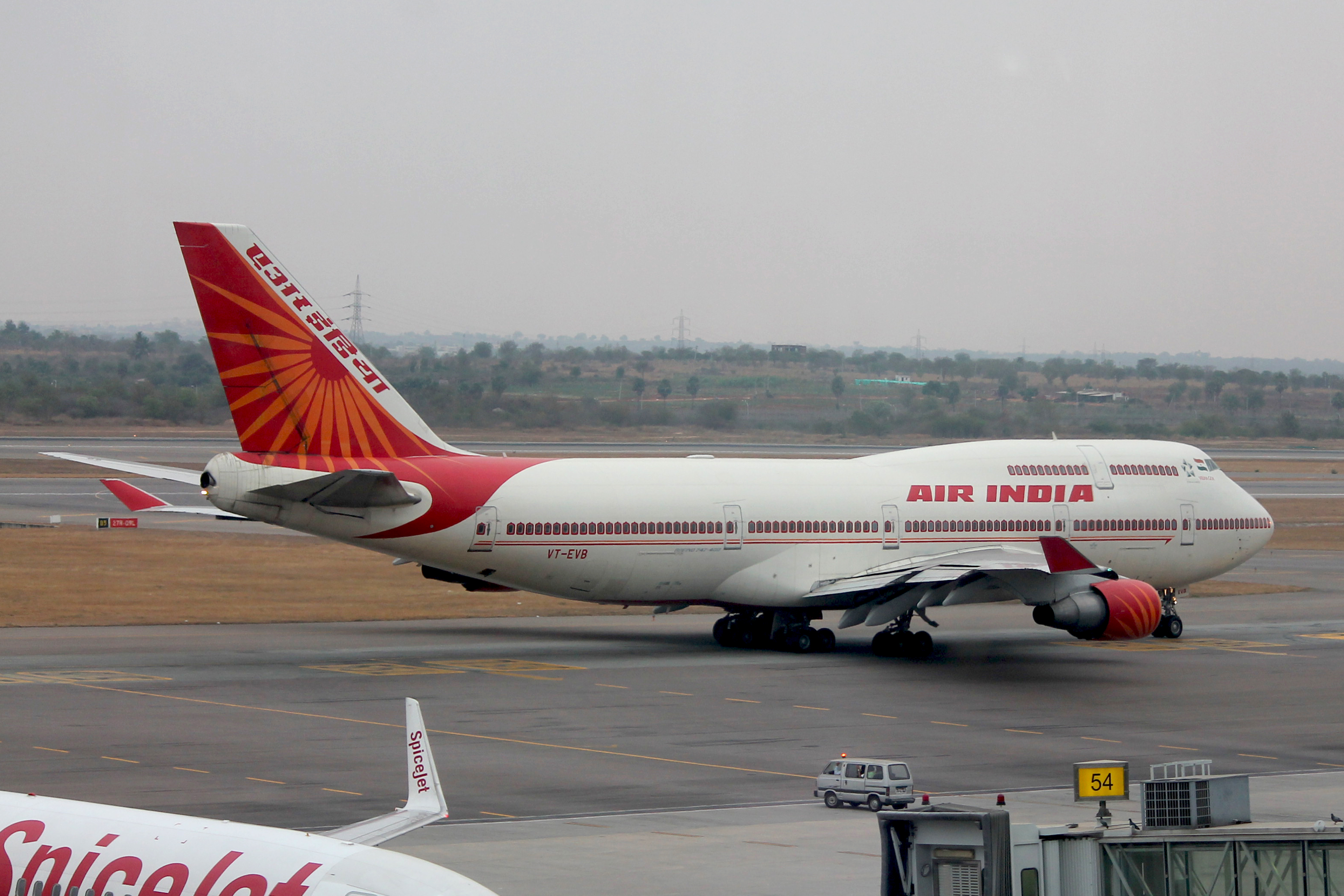 Air India 747-400 at Rajiv Gandhi Int'l Airport, Hyderabad, India. Taxiing for departure to Jeddah as AI 965.